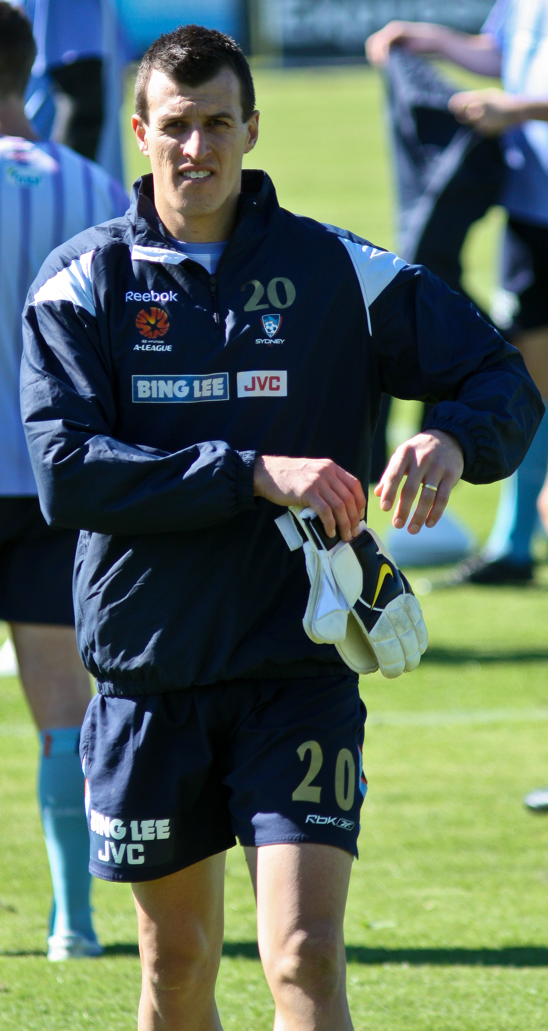 Ivan Necevski at 2009-2010 pre-season training with Sydney FC.